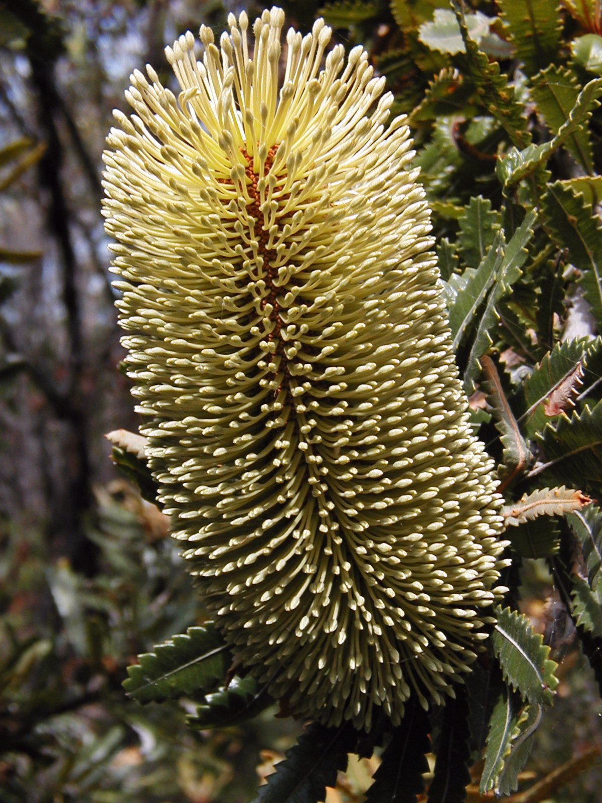 Banksia aemula in late bud. Sydney basin somewhere.